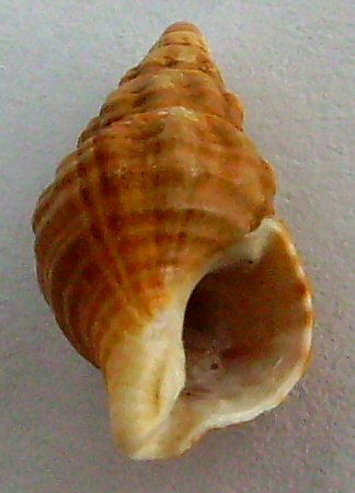 Buccinulum vittatum vittatum (underside) dredged north of Pakiri, New Zealand. This work has been released into the public domain by its author, Graham Bould. This applies worldwide.In some countries this may not be legally possible; if so:Graham Bould grants anyone the right to use this work for any purpose, without any conditions, unless such conditions are required by law.